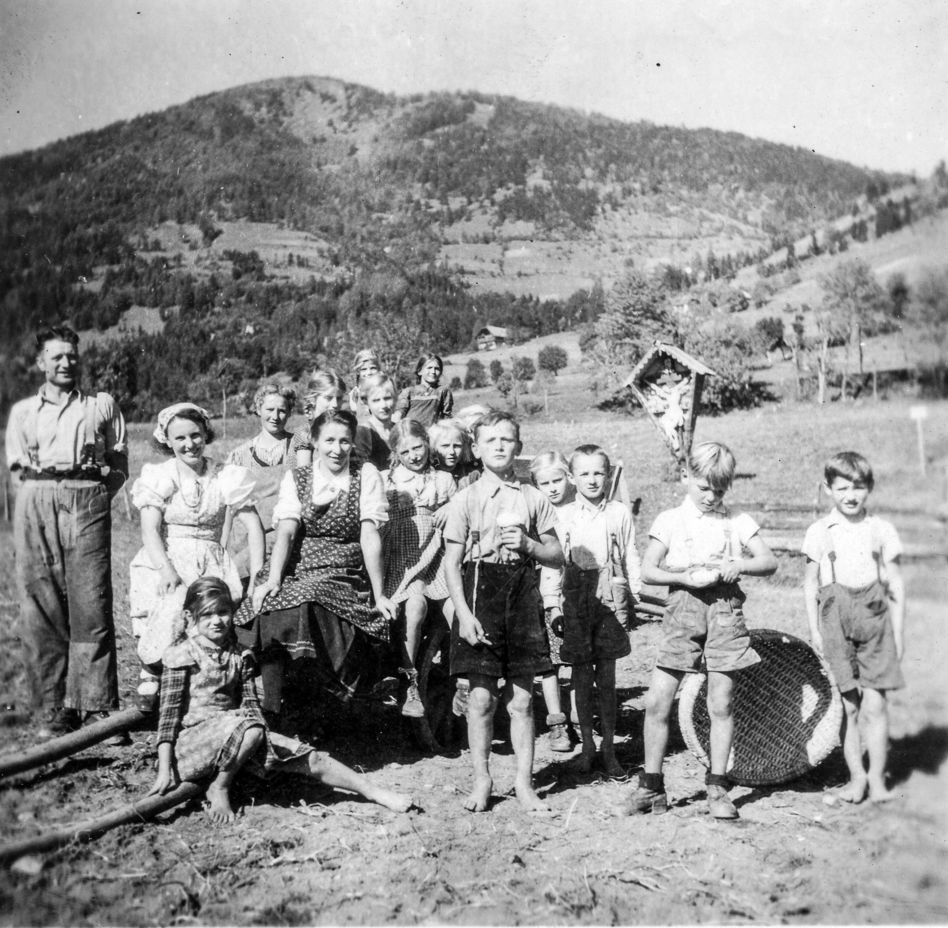 School class at the potato harvest in September 1942 in Obermillstatt near Lake Millstatt (Millstätter See), district Spittal an der Drau in Carinthia / Austria / Middle Europe / European Union. View to the northwest. On the left side of the farmer vlg Bartl. In the middle the school teacher or the farmer's wife and all around are fourteen children. Some are barefoot, the shoes were very expensive. In the background, the cross on the Fresn, later the Unter-Herzog Farm. The mountain in the background is the Tschiernock, part of the Millstätter Alpes.